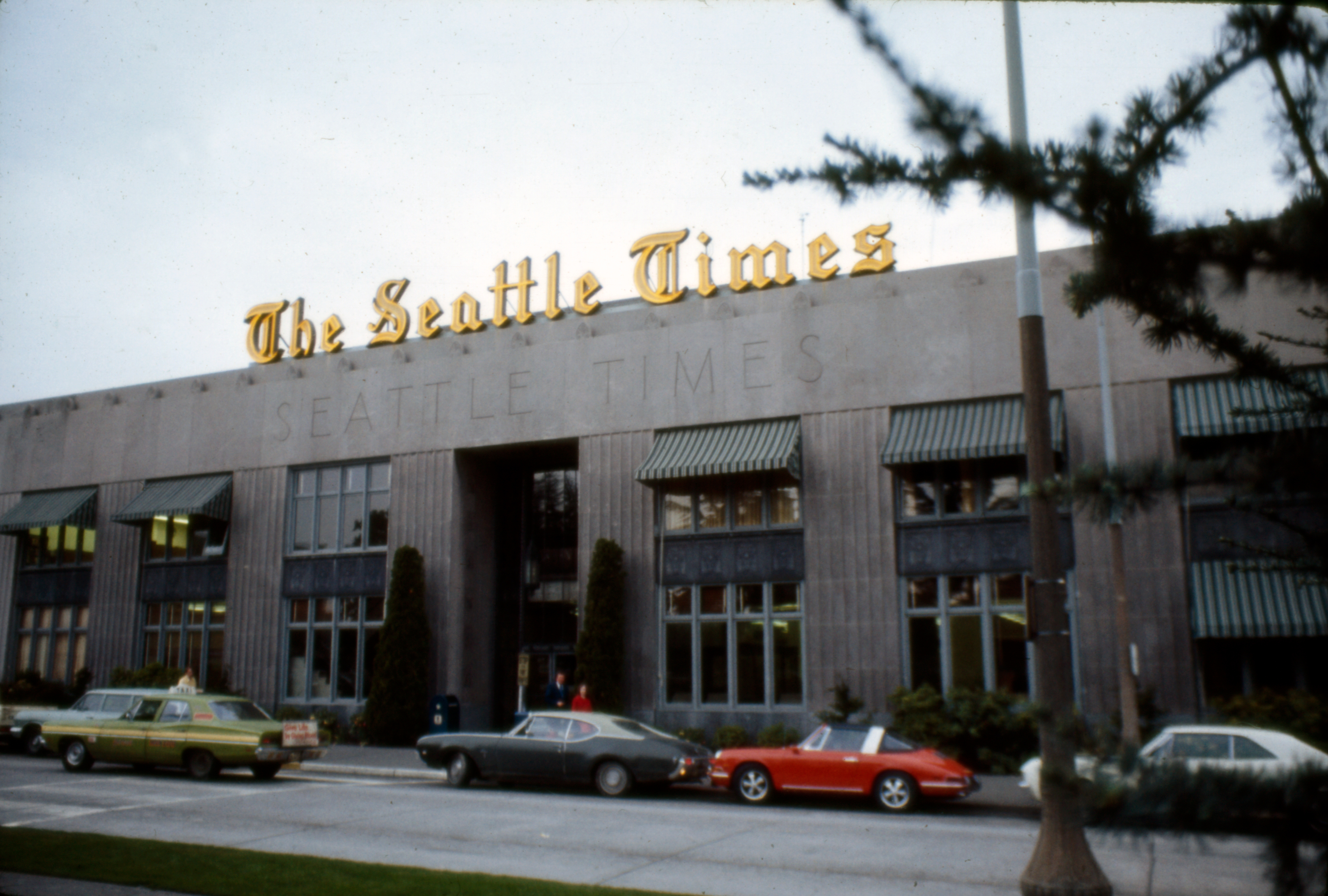 Seattle Times building, Seattle, Washington, U.S. circa 1970s.